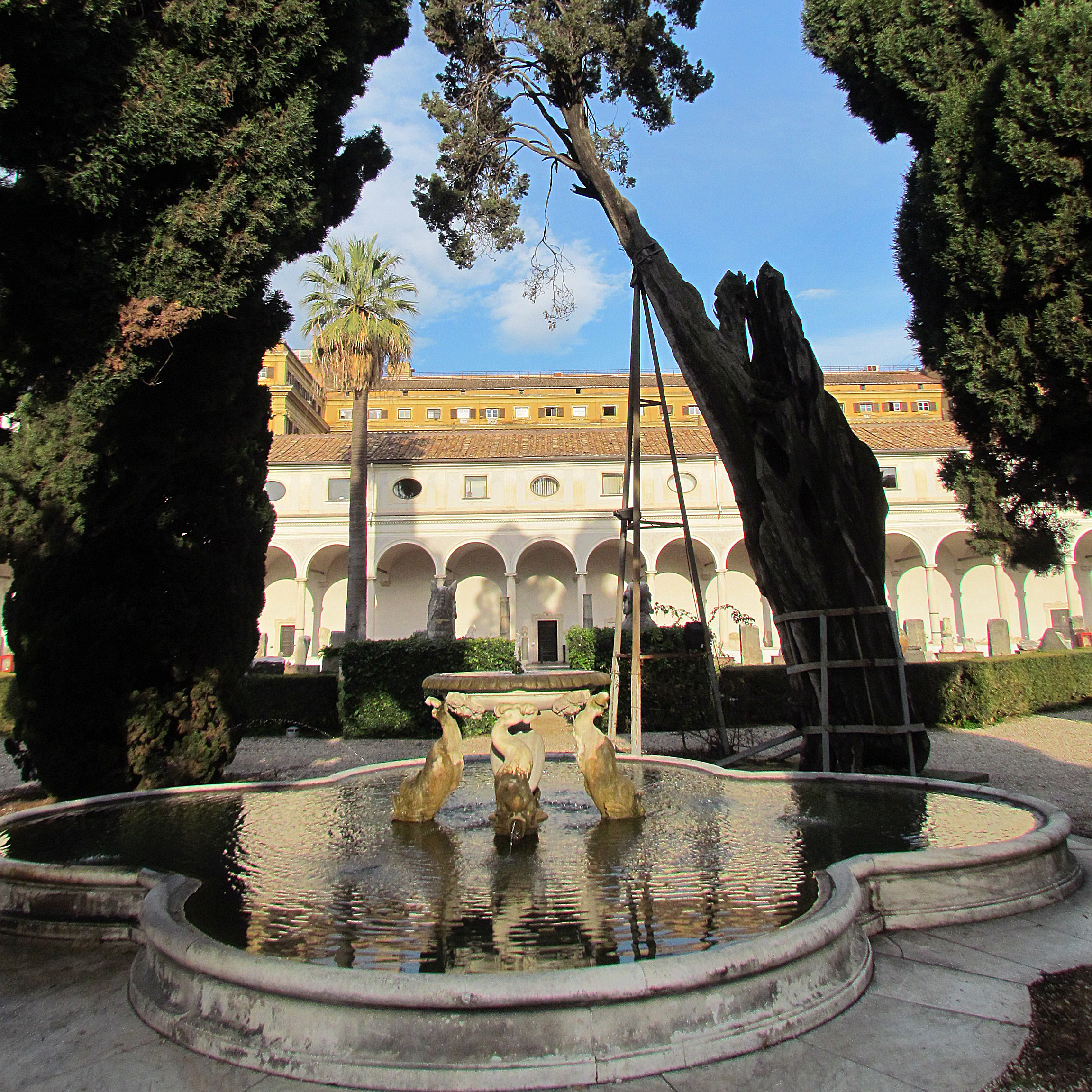 Michelangelo Cloister Roma